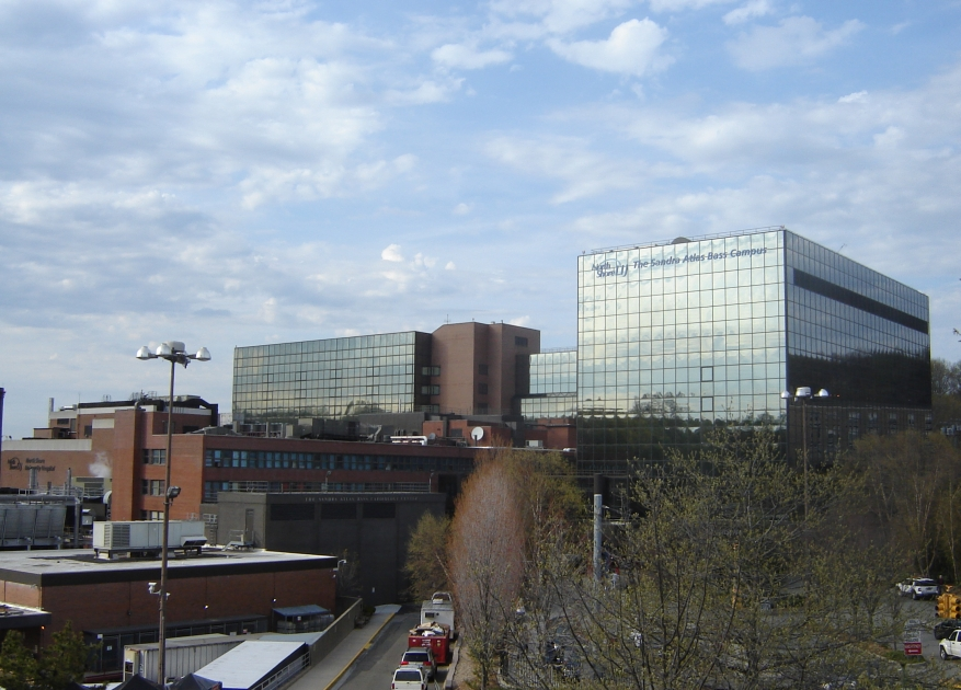 North Shore University Hospital in Manhasset, New York.